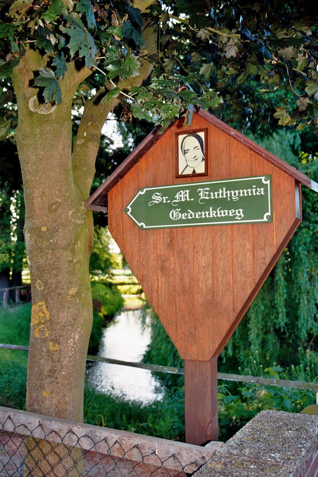 Sister Maria Euthymia commemorative path (Schwester-Maria-Euthymia-Gedenkweg) in Hopsten-Halverde, Kreis Steinfurt, North Rhine-Westphalia, Germany.